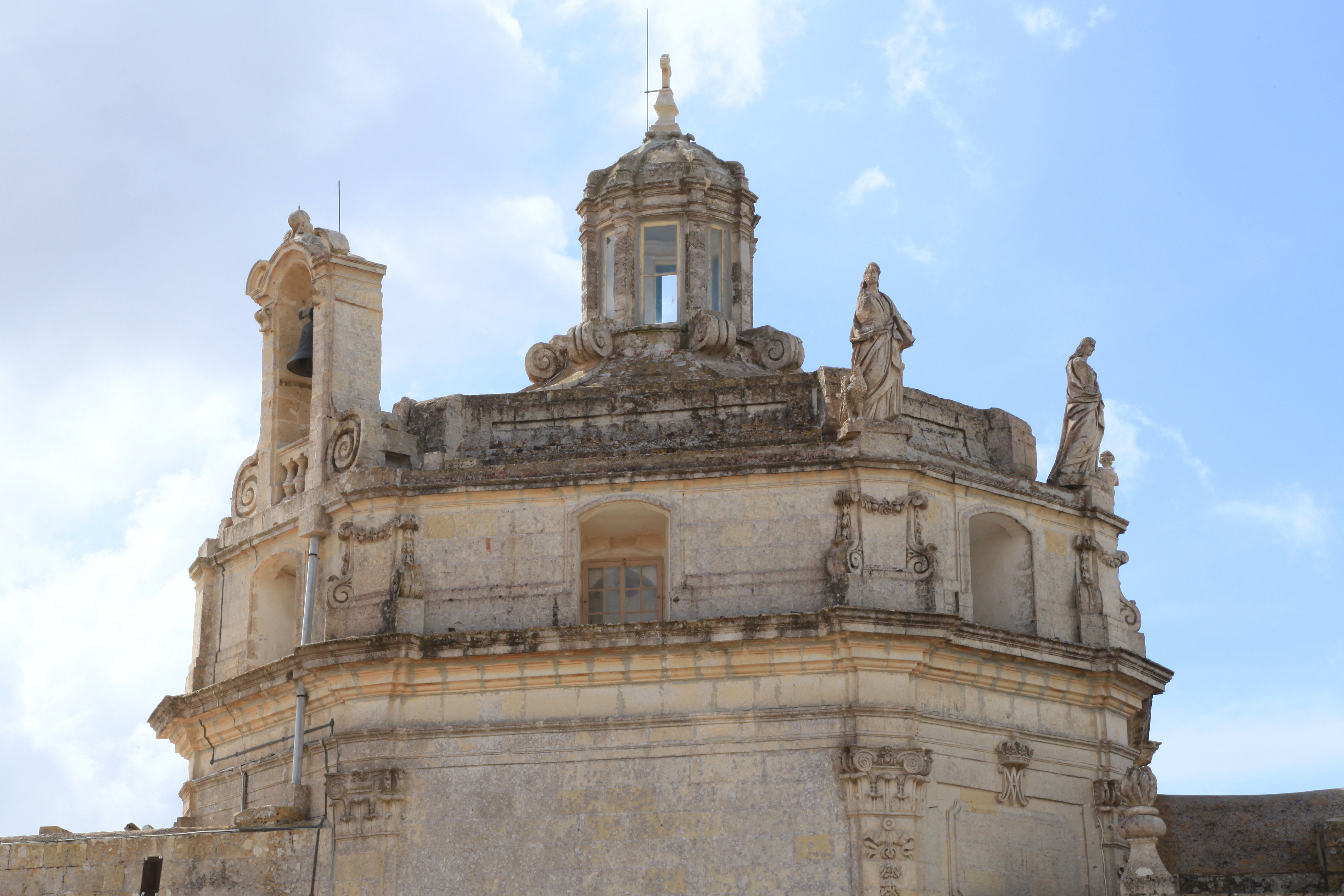 Church of Our Lady of Divine Providence, Trejqa tal-Providenza in Siġġiewi, Malta